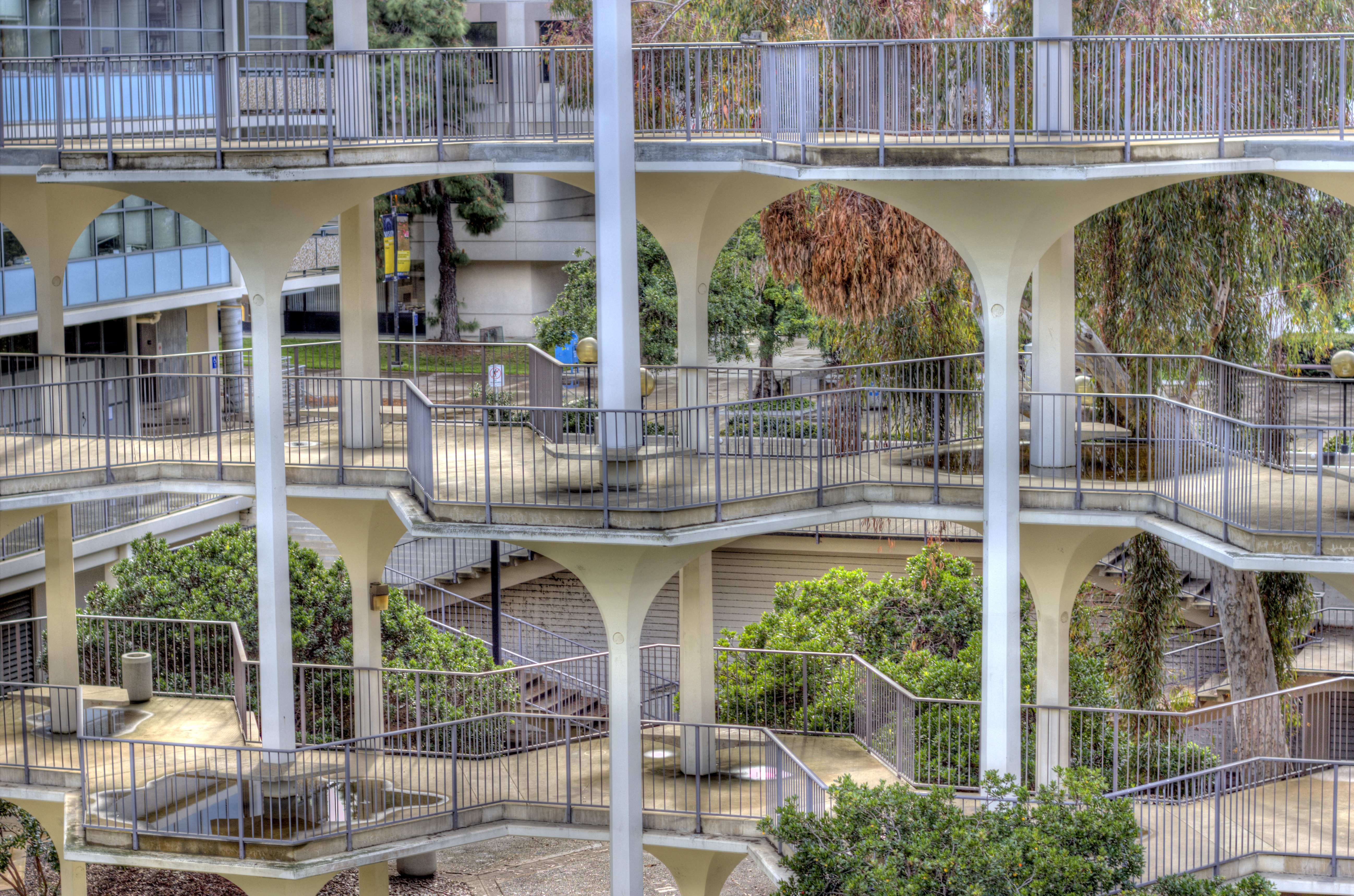 Breezeway connecting Mayer and Bonner Halls at Revelle College, University of California, San Diego.